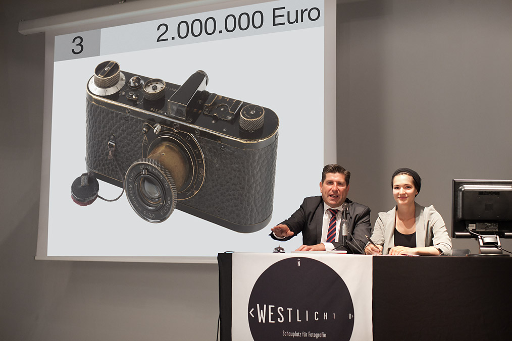 Kamera Auktion